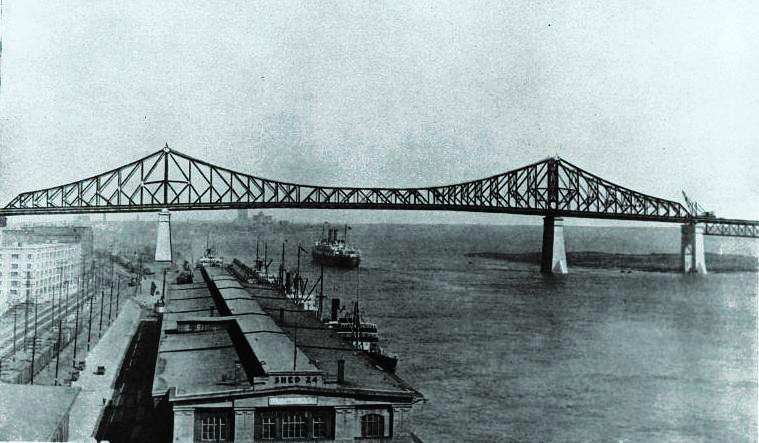 Print, Main span complete, Harbour Bridge, Montreal, QC, 1930, Anonymous, 1930. Ink on paper - Halftone - 20 x 25 cm